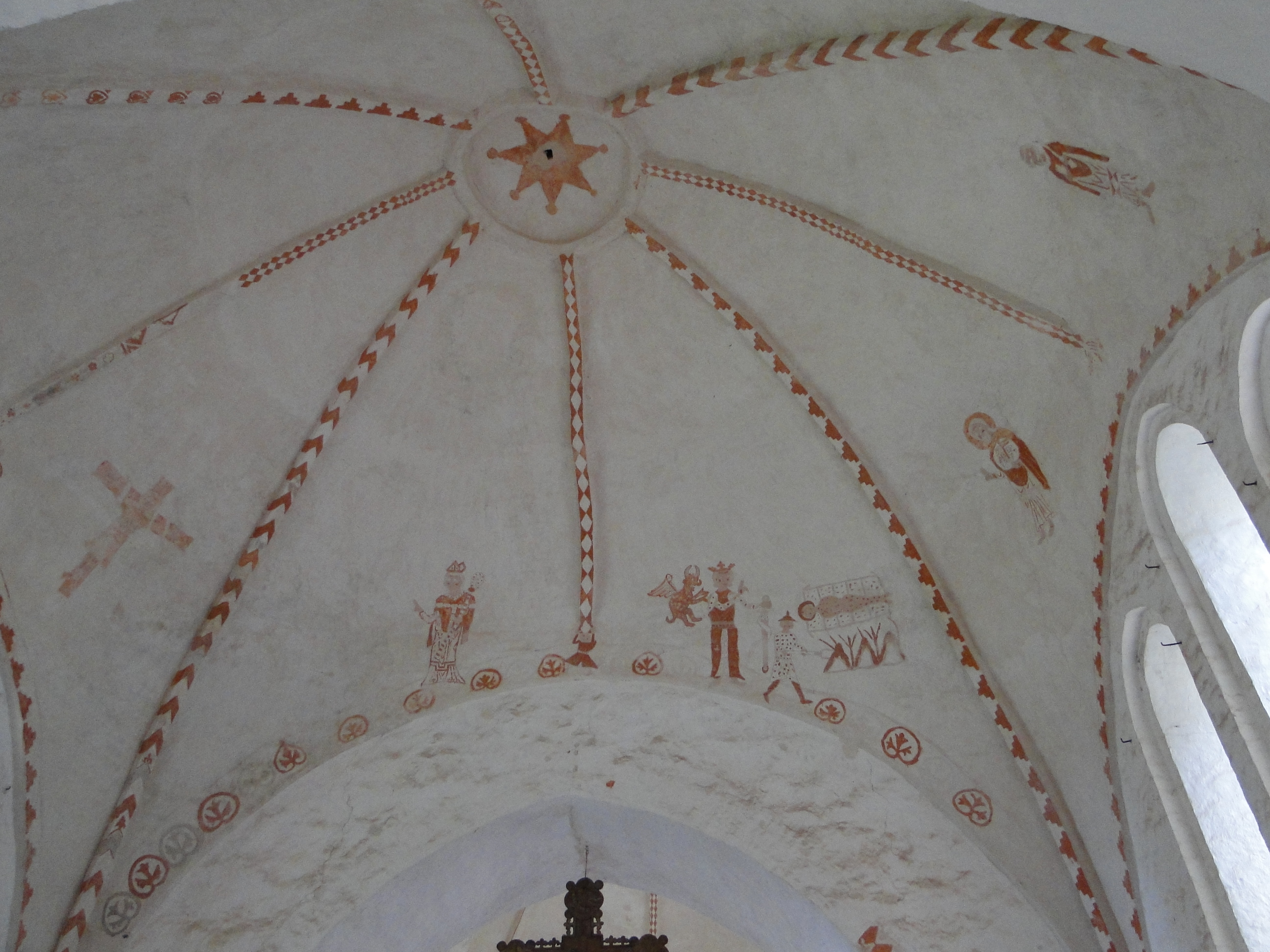 Painted ceilings in the church in Ruchow in the district Parchim, Mecklenburg-Vorpommern, Germany